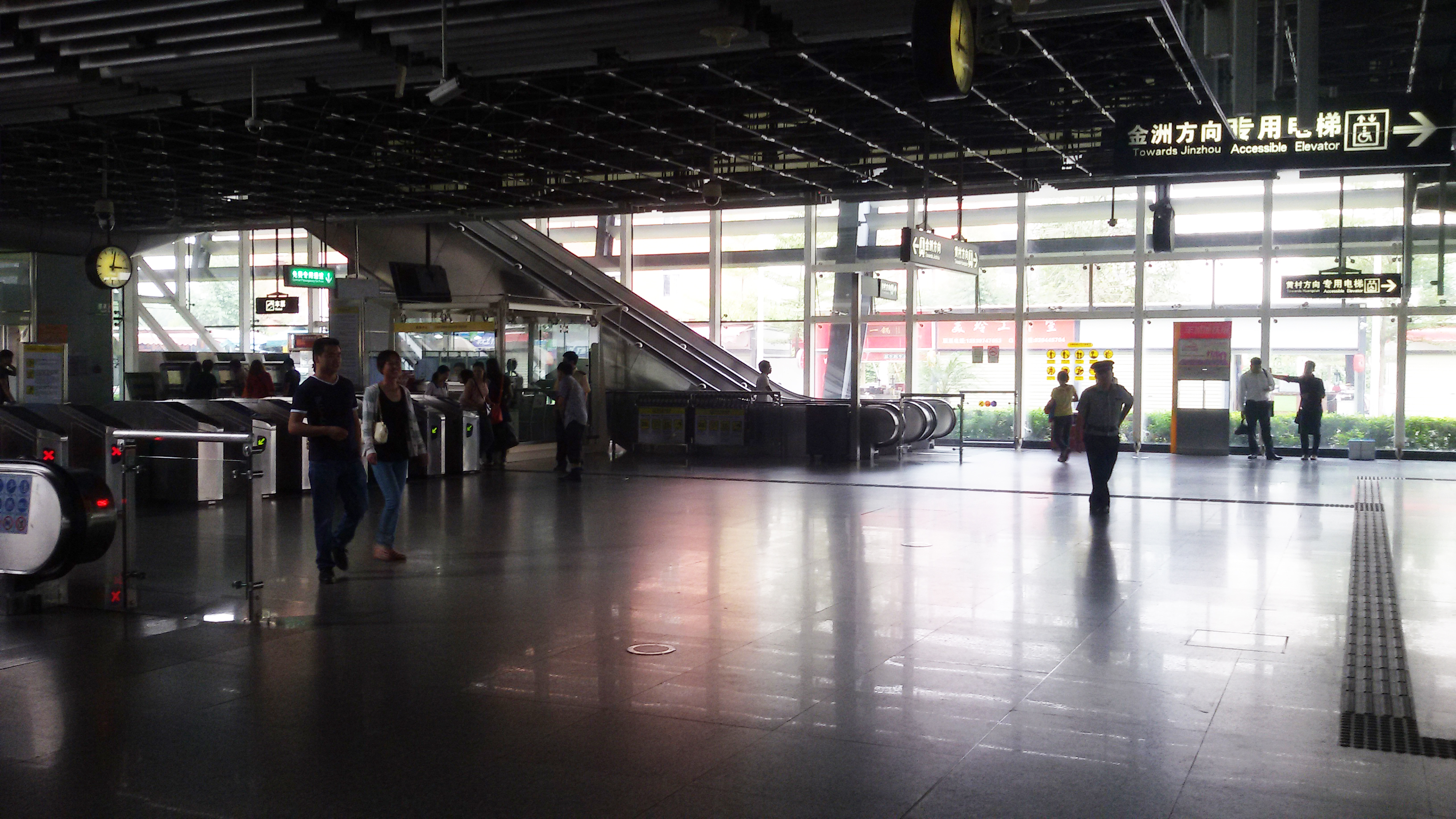 廣州地鐵，石碁站嘅站廳。